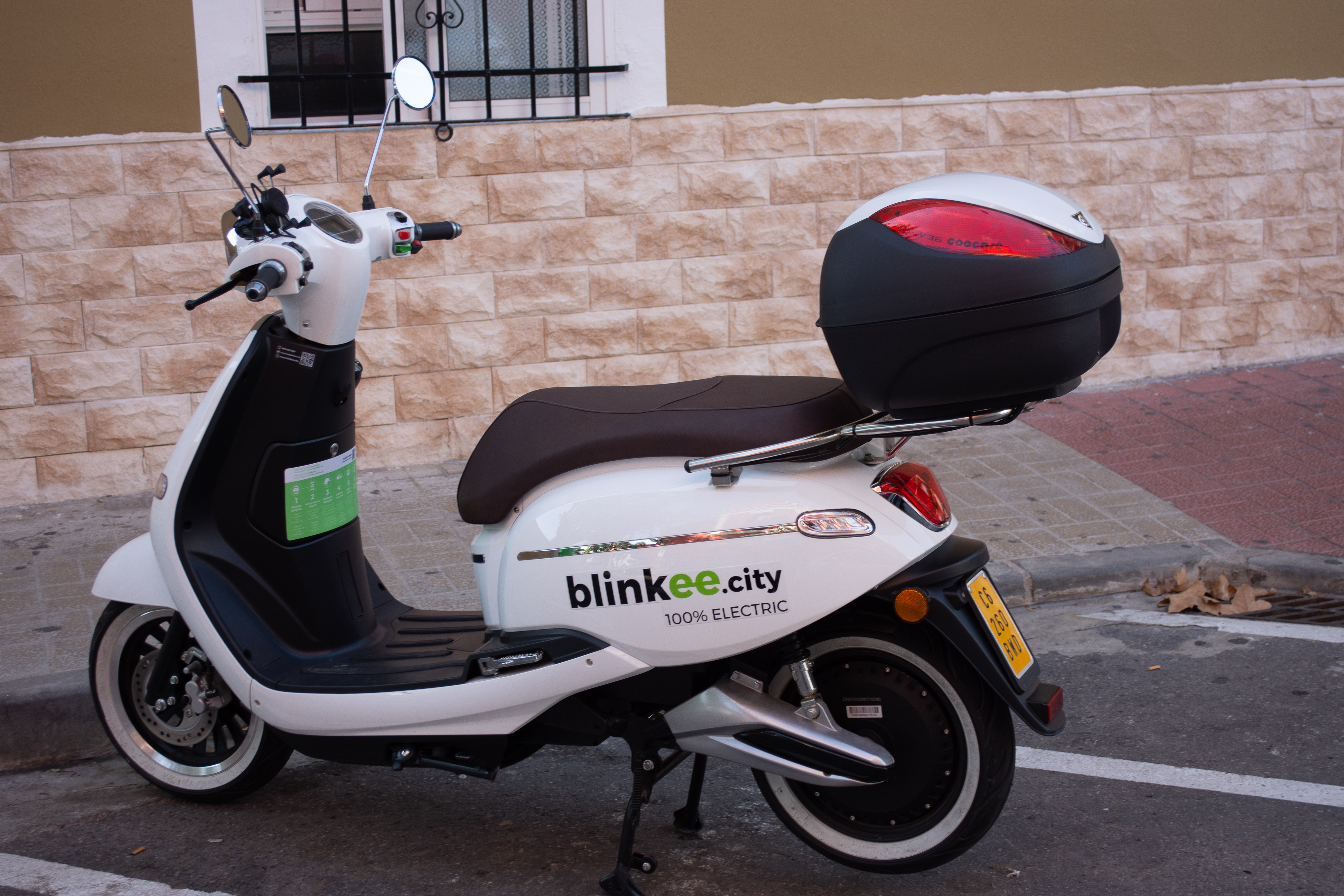 Blinkee electric scooter in Burjassot.